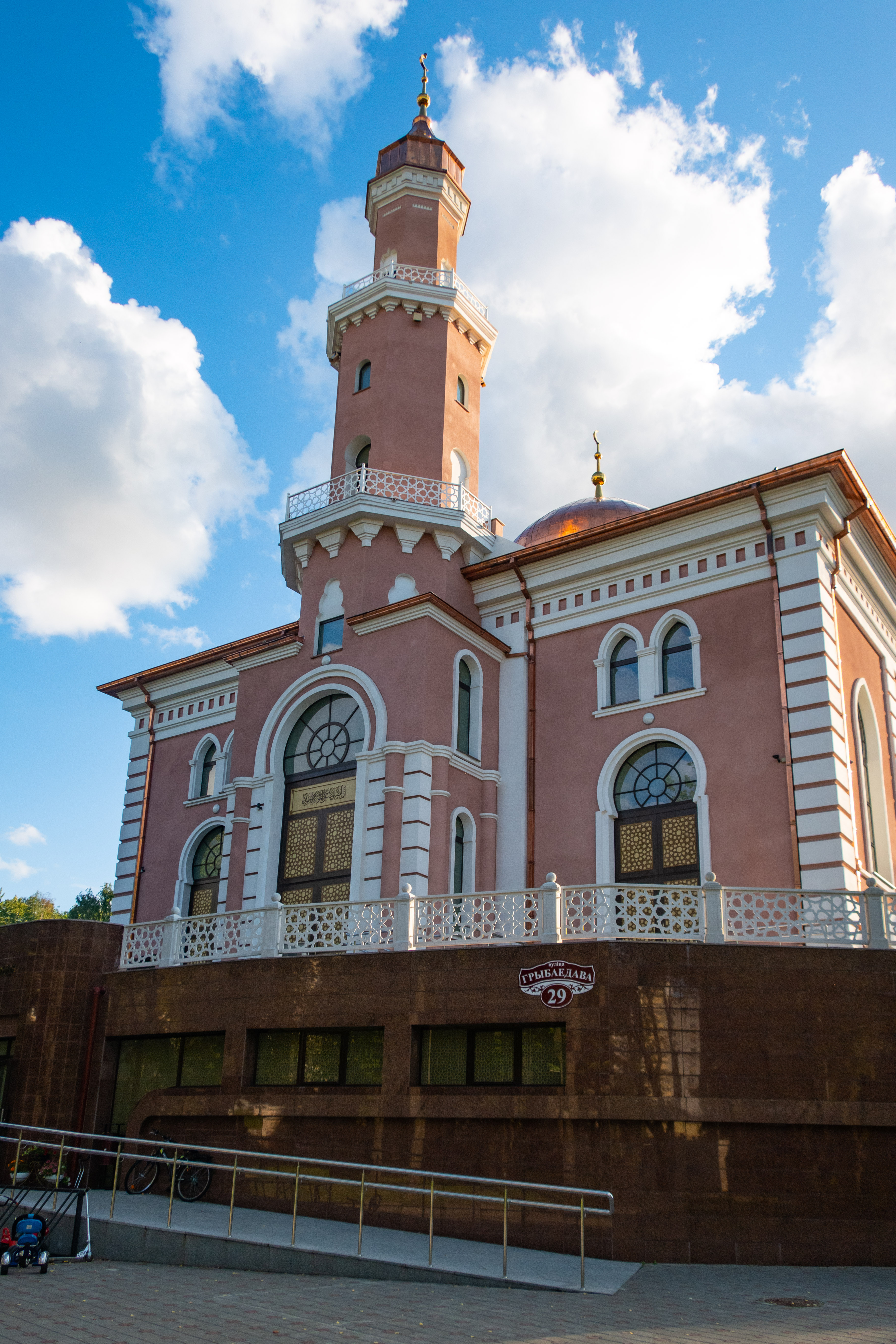 New mosque in Minsk, Belarus